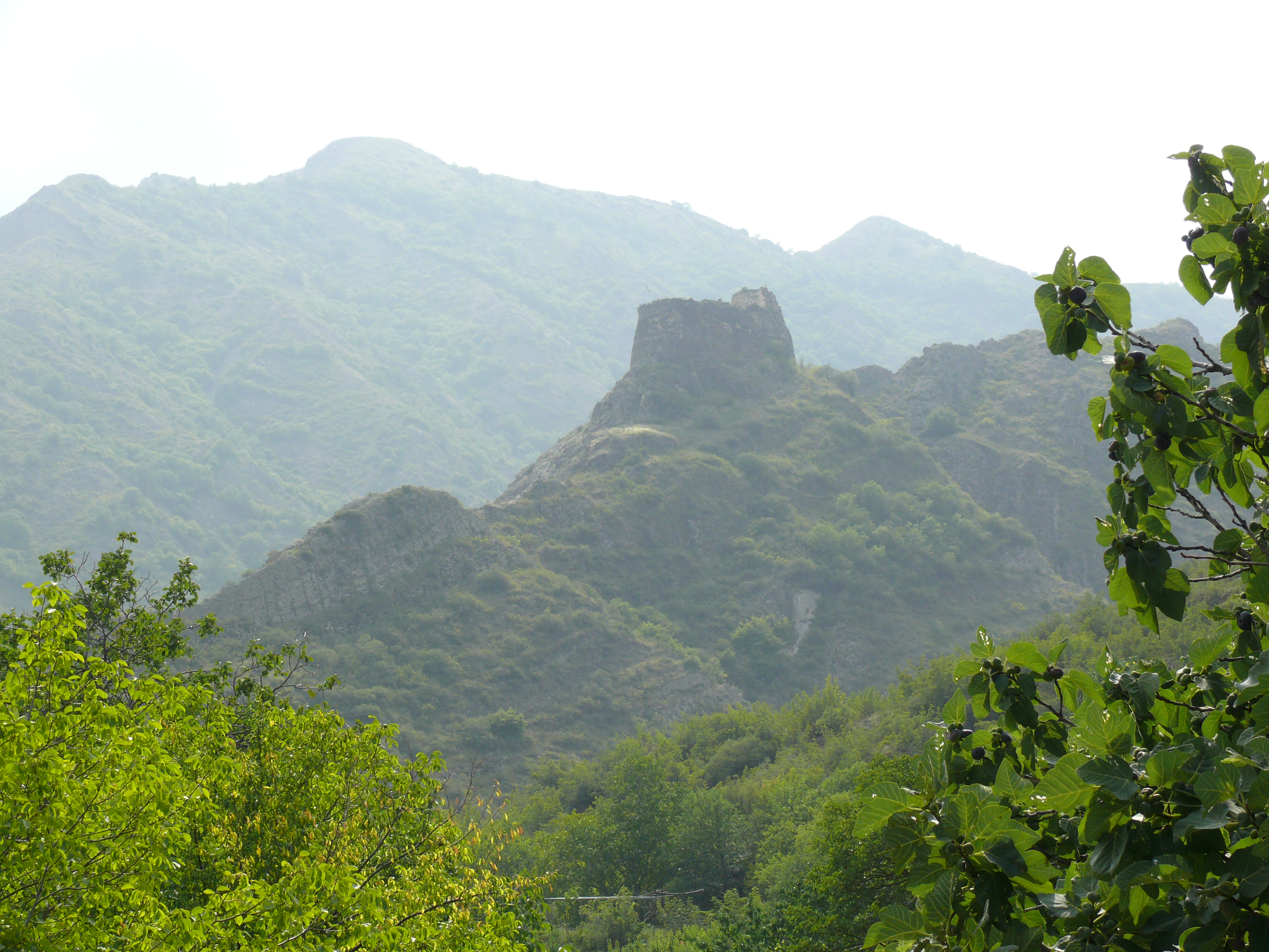 Castle of Ateni